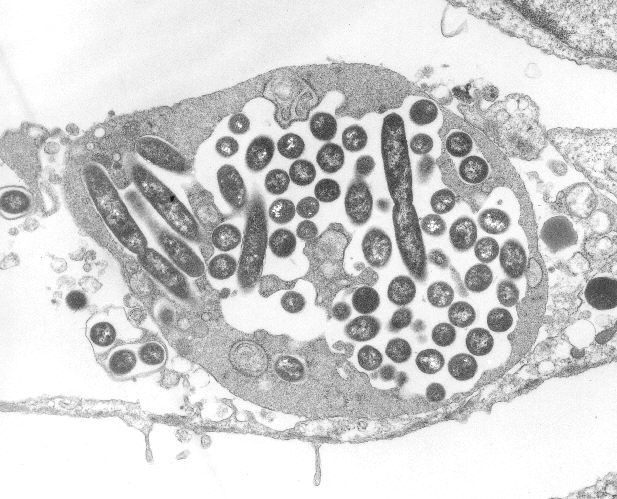 ID#: 934 Legionella pneumophila multiplying inside a cultured human lung fibroblast. Multiple intracellular bacilli, including dividing bacilli, are visible in longitudinal and cross section. Transmission electron micrograph.